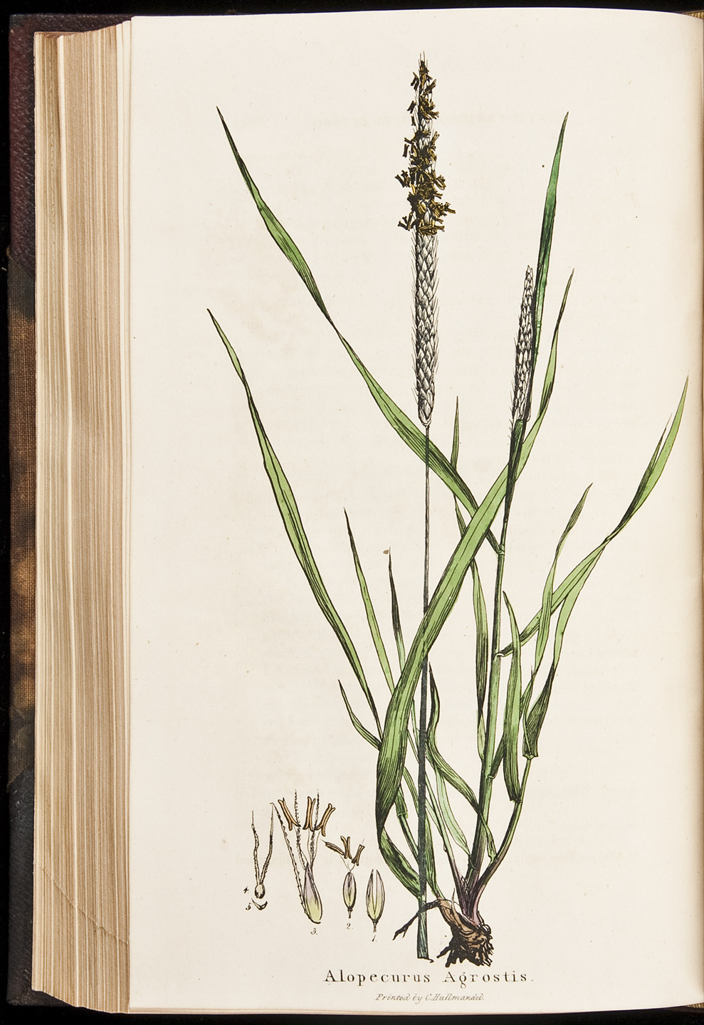 Alopecurus Agrostis from George Sinclair's Hortus Gramineus Woburnensis: Or, An Account of the Results of Experiments on the Produce and Nutritive Qualities of Different Grasses and Other Plants, London 1826. (Third edition with 60 hand-coloured plates.)